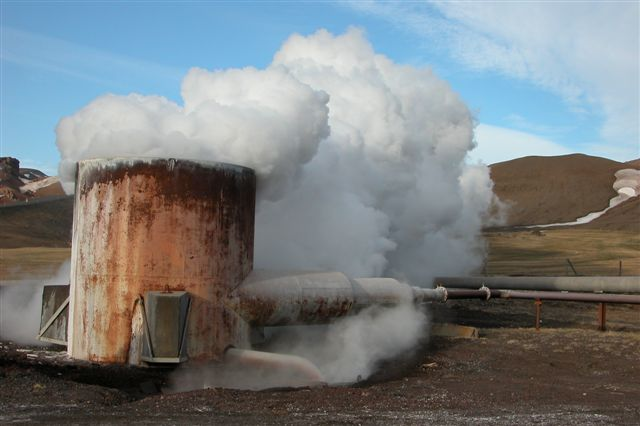 Geothermal boiler, near Reykjahlíð, Myvatn, Iceland